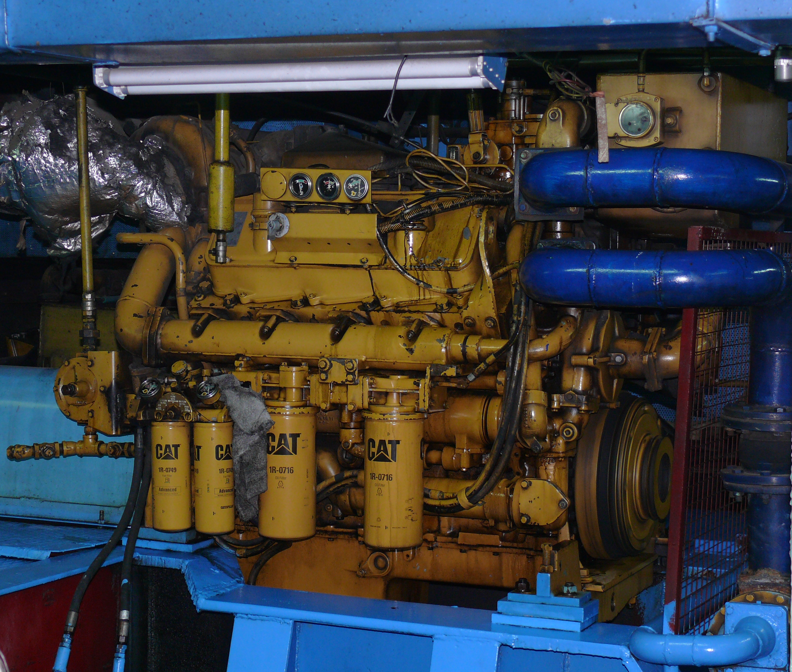 One of the three Caterpillar motors of the M/S Mahrousa.